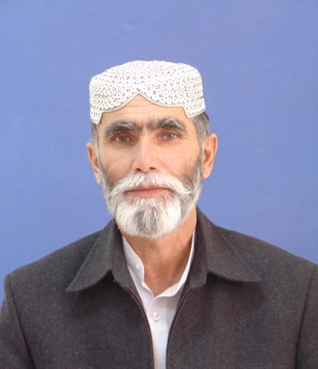 Bangulzai